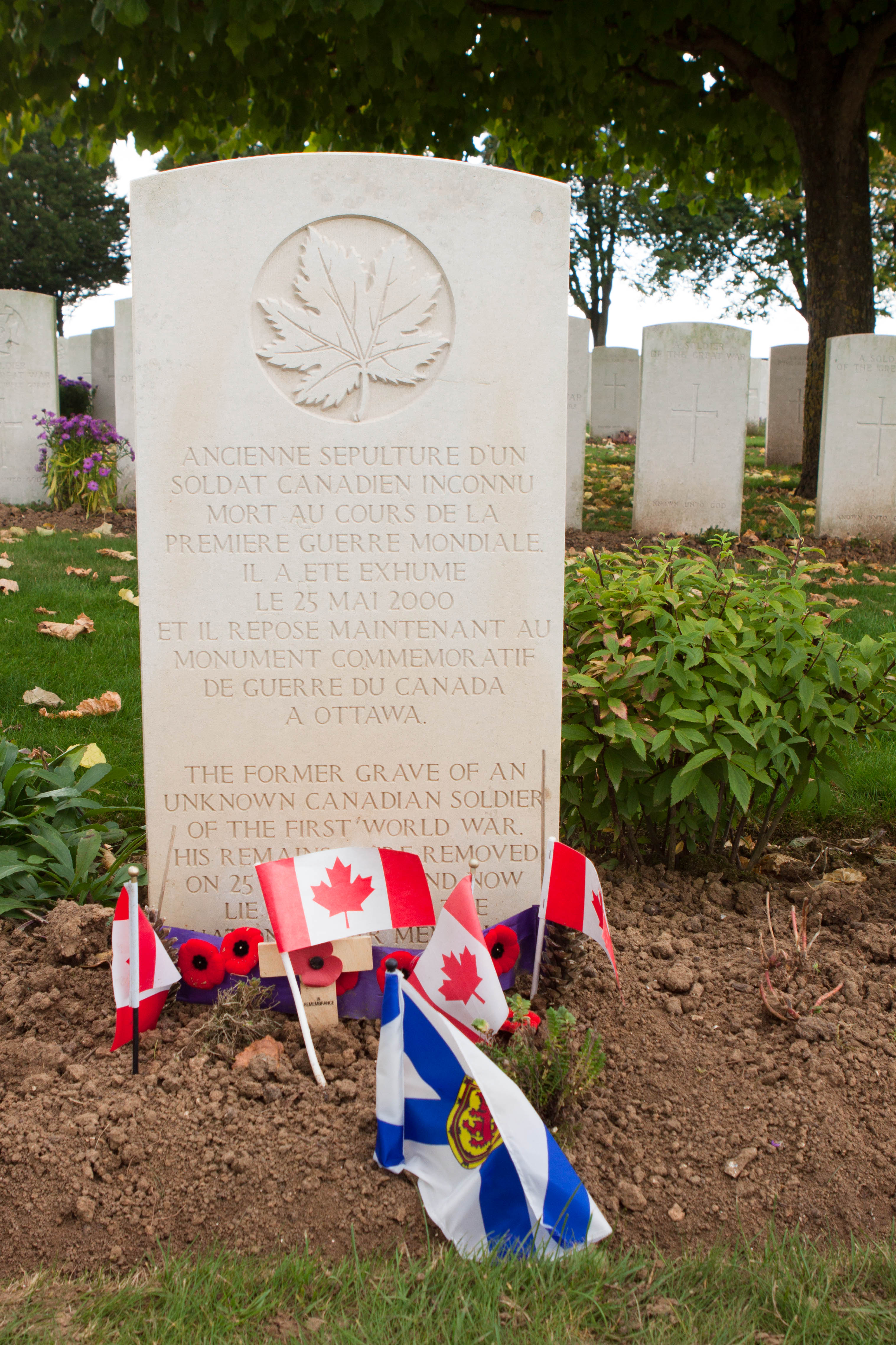 Cabaret-Rouge British Cemetery